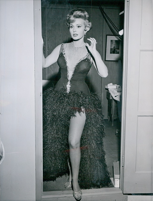 Zsa Zsa Gabor in a publicity photo for the television series December Bride (1958)